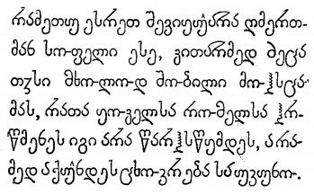 British and Foreign Bible Society of the Georgian specimen, showing an excerpt from John 3:16.